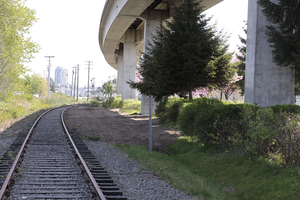 The interurban below the new(er) interurban. Just outside Royal Oak Station, Burnaby. 090502-23